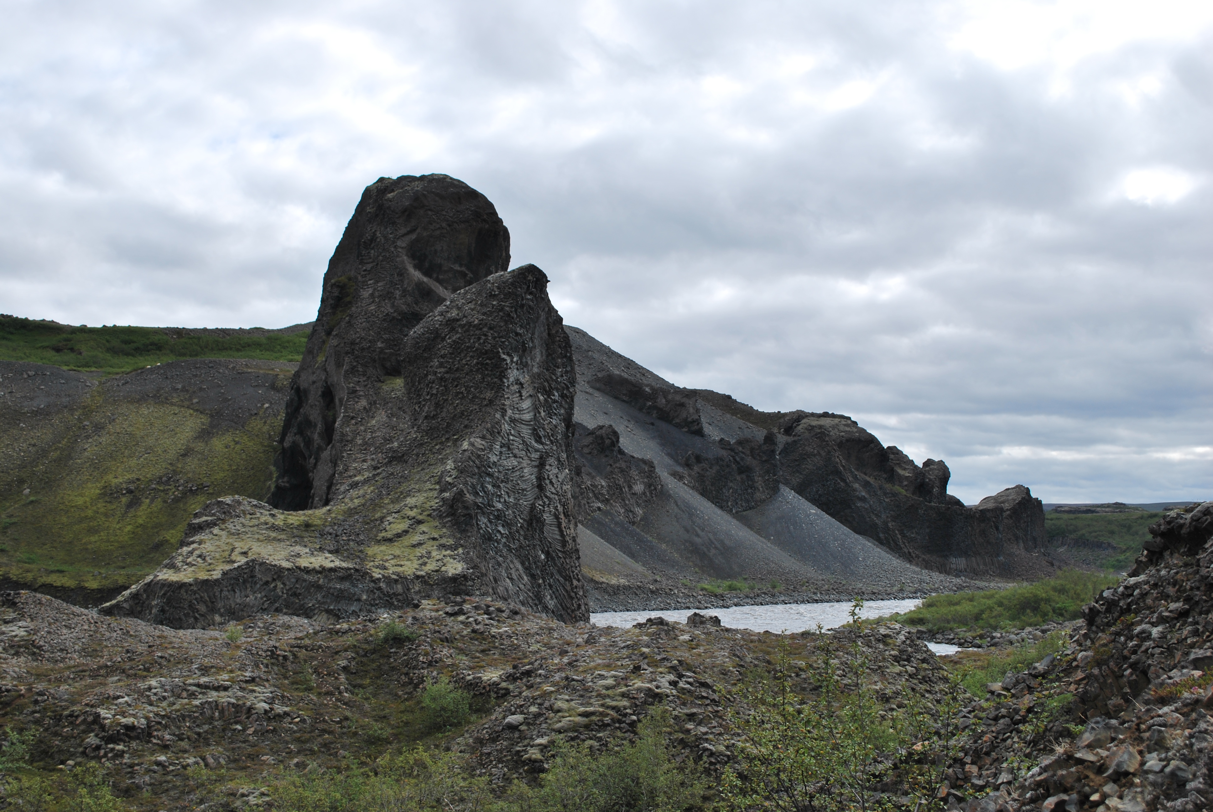 Hljódaklettar area which is characteristic with basaltic columns forming atypical formations, Iceland.